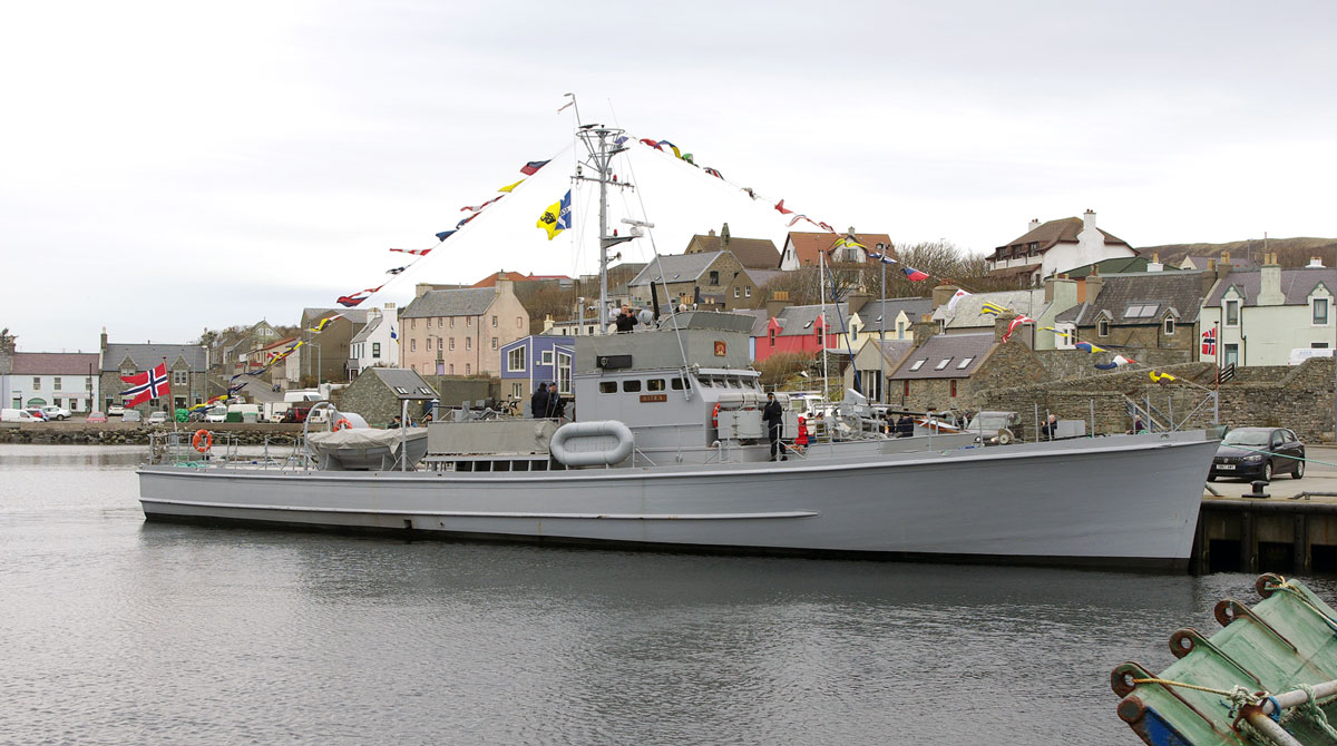 Norwegian vessel HNoMS Hitra moored at Scalloway.